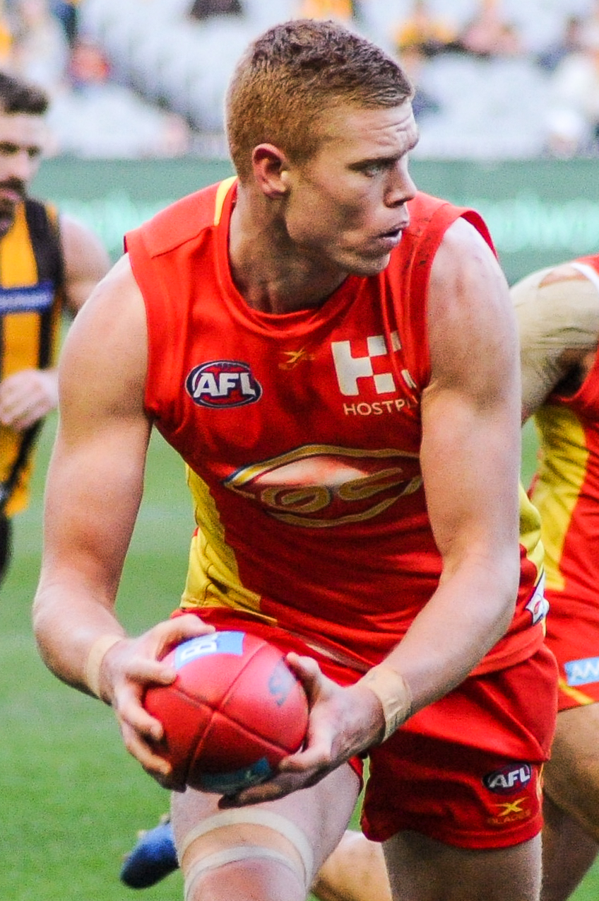 Peter Wright during the AFL round twelve match between Melbourne and Collingwood on 10 June 2017 at the Melbourne Cricket Ground in Melbourne, Victoria.